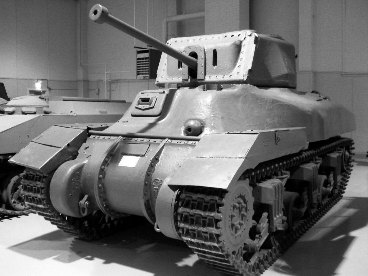 Ram Mark II at Base Borden Military Museum.